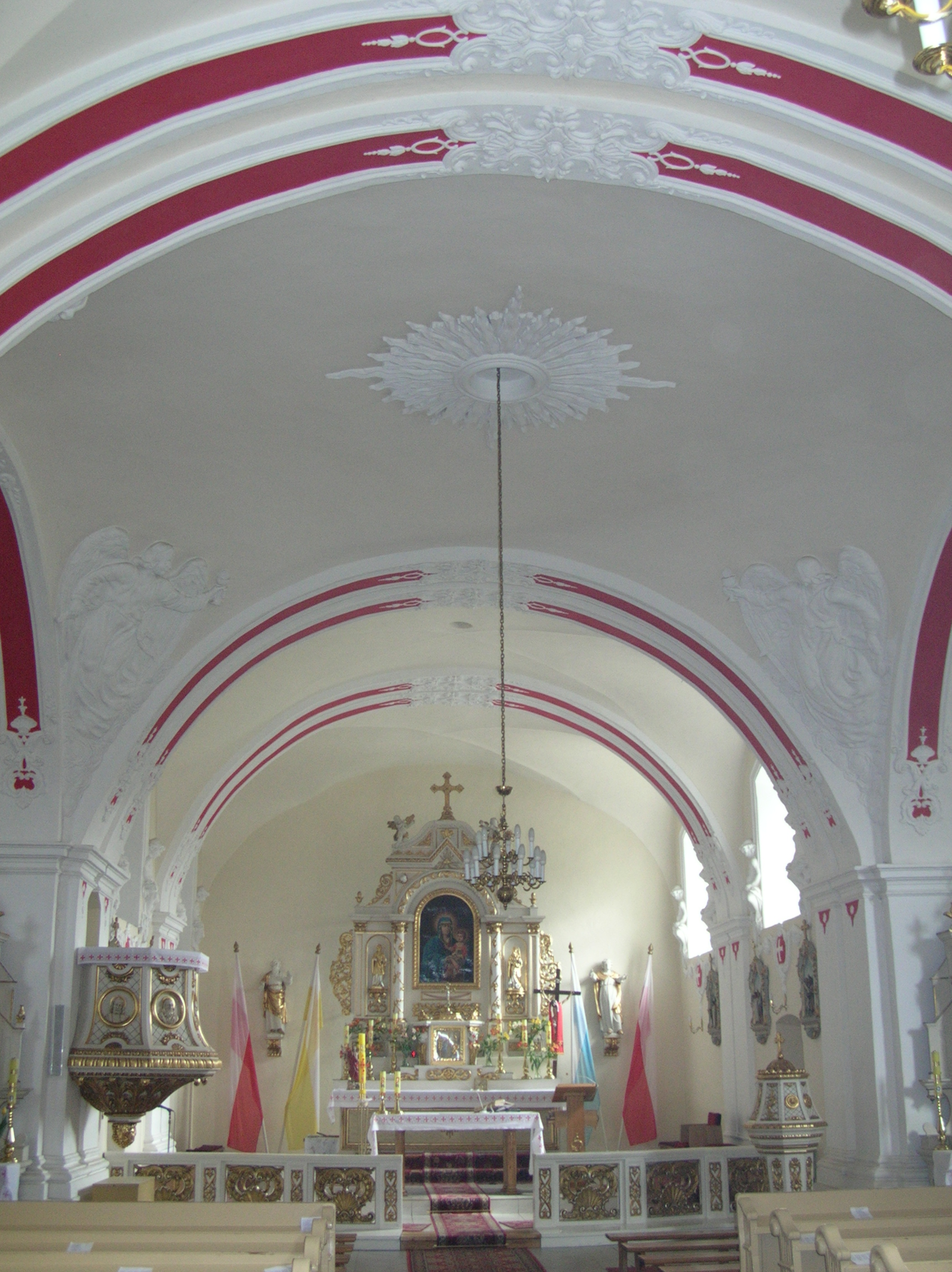 Interior of the church in Palędzie Kościelne